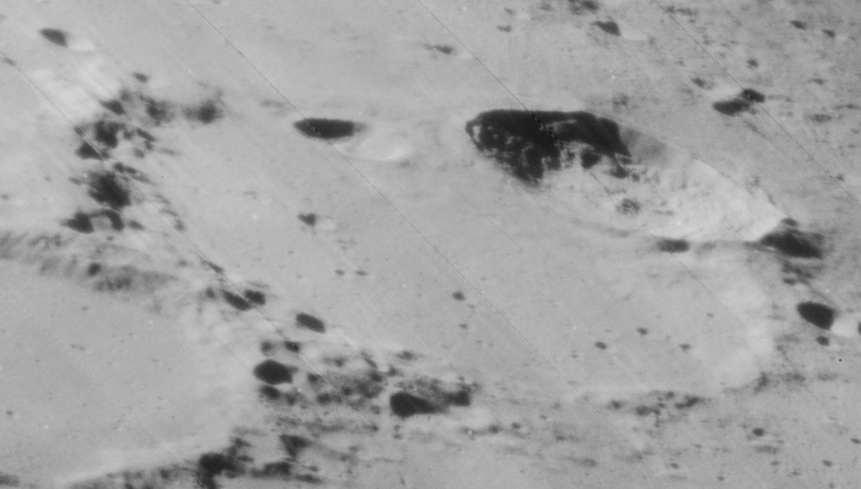 Oblique view of Goldschmidt crater, with Anaxagoras crater in upper right, facing northwest, on the moon.